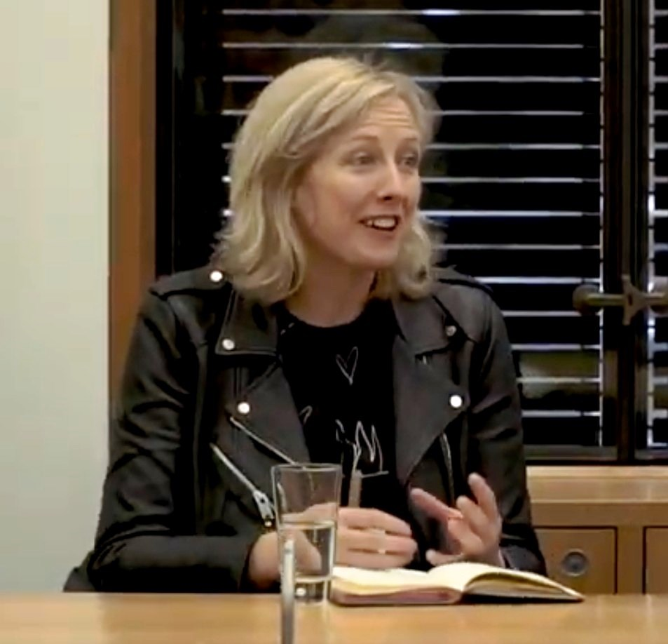 Award-winning investigative journalist, Carole Cadwalladr speaks at the Westminster launch of Molly's report on how Facebook has undermined democracy and what we can do to challnge this. Find out more about Molly's report